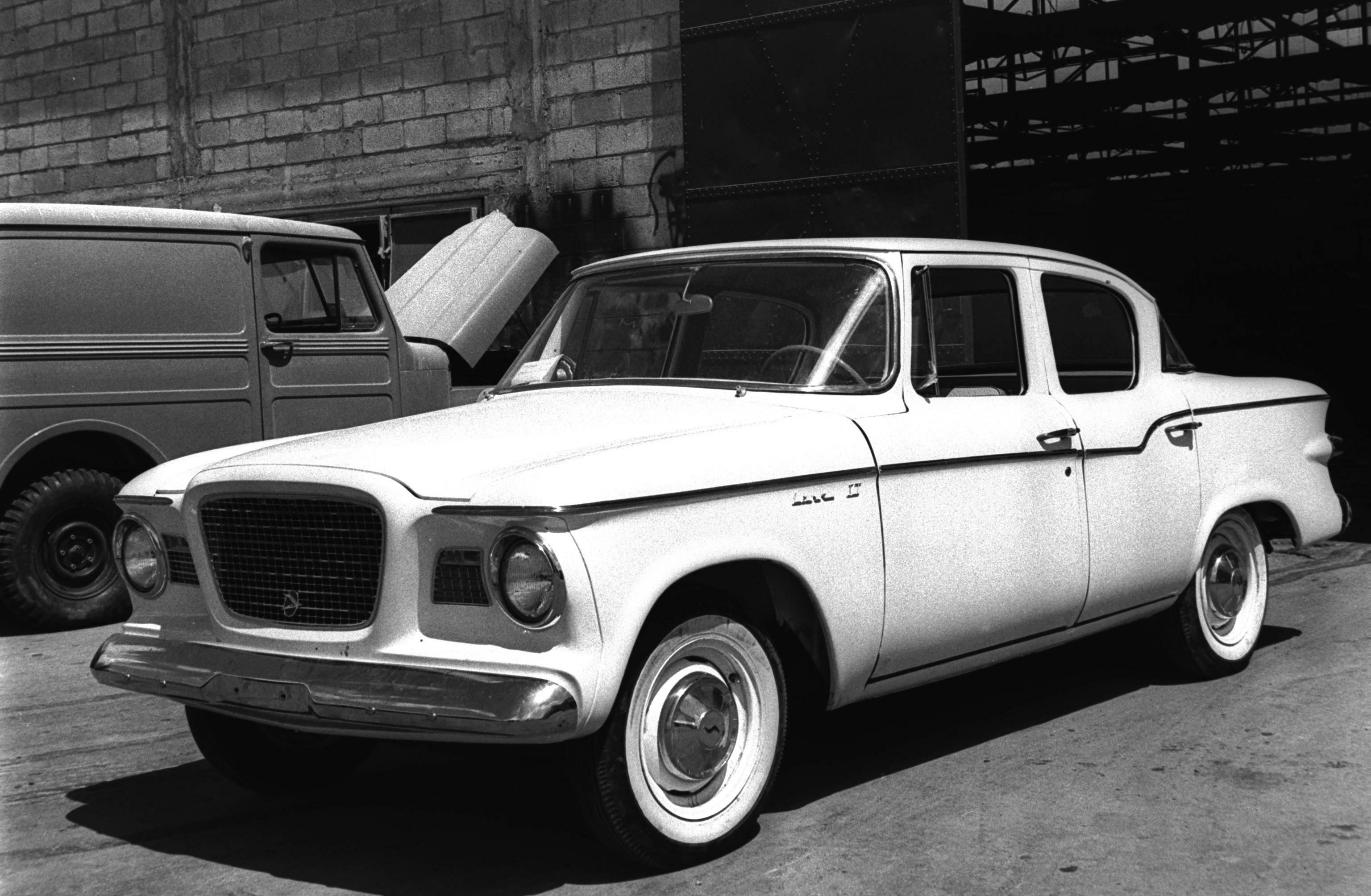 The first Studebaker Lark assembled at Kaiser Frazer, Haifa